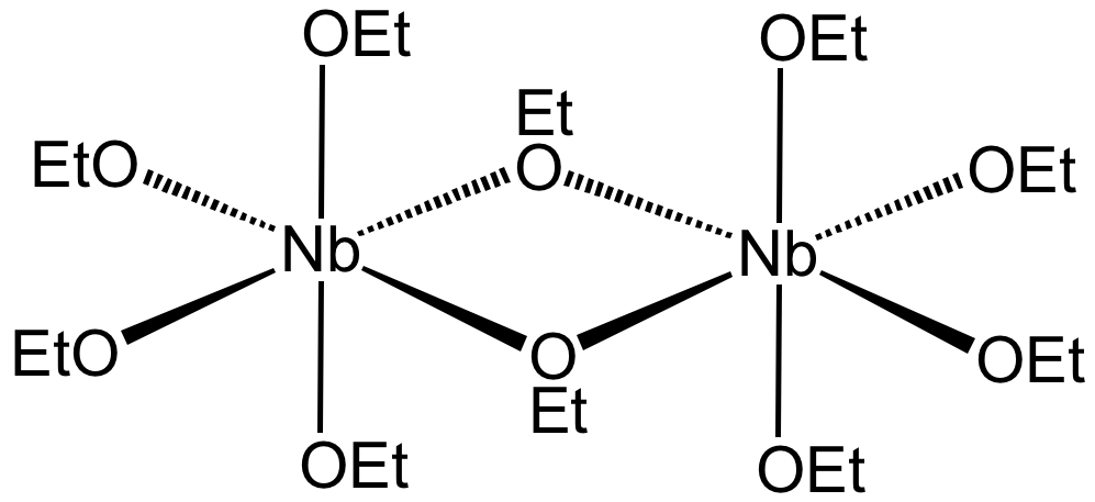 structure of Nb2(OR)10 for small R's